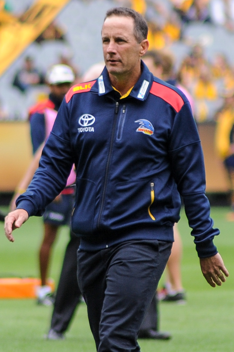 Don Pyke during the AFL round two match between Hawthorn and Adelaide on 1 April 2017 at the Melbourne Cricket Ground in Melbourne, Victoria.